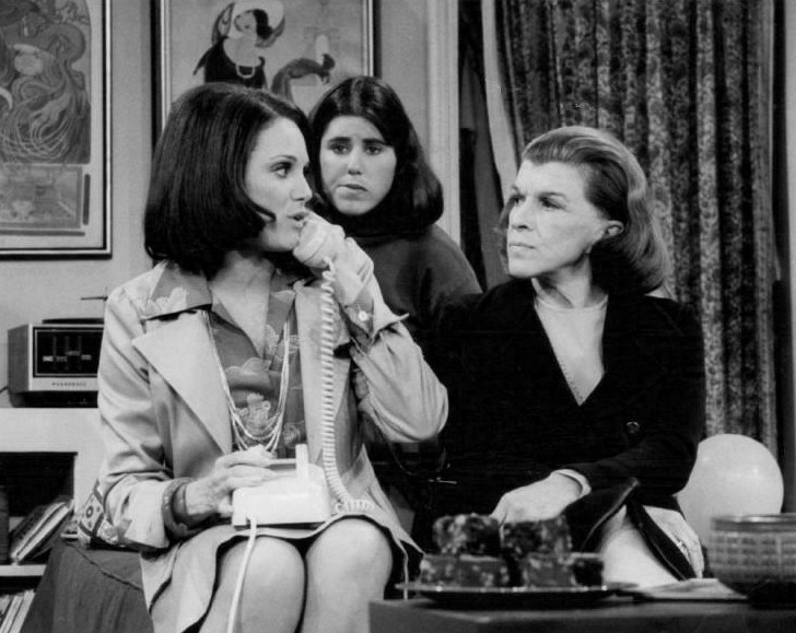 Photo from the premiere of the television program Rhoda. Valerie Harper (Rhoda) is on phone as Julie Kavner (her sister, Brenda), and Nancy Walker (her mother, Ida), look on.